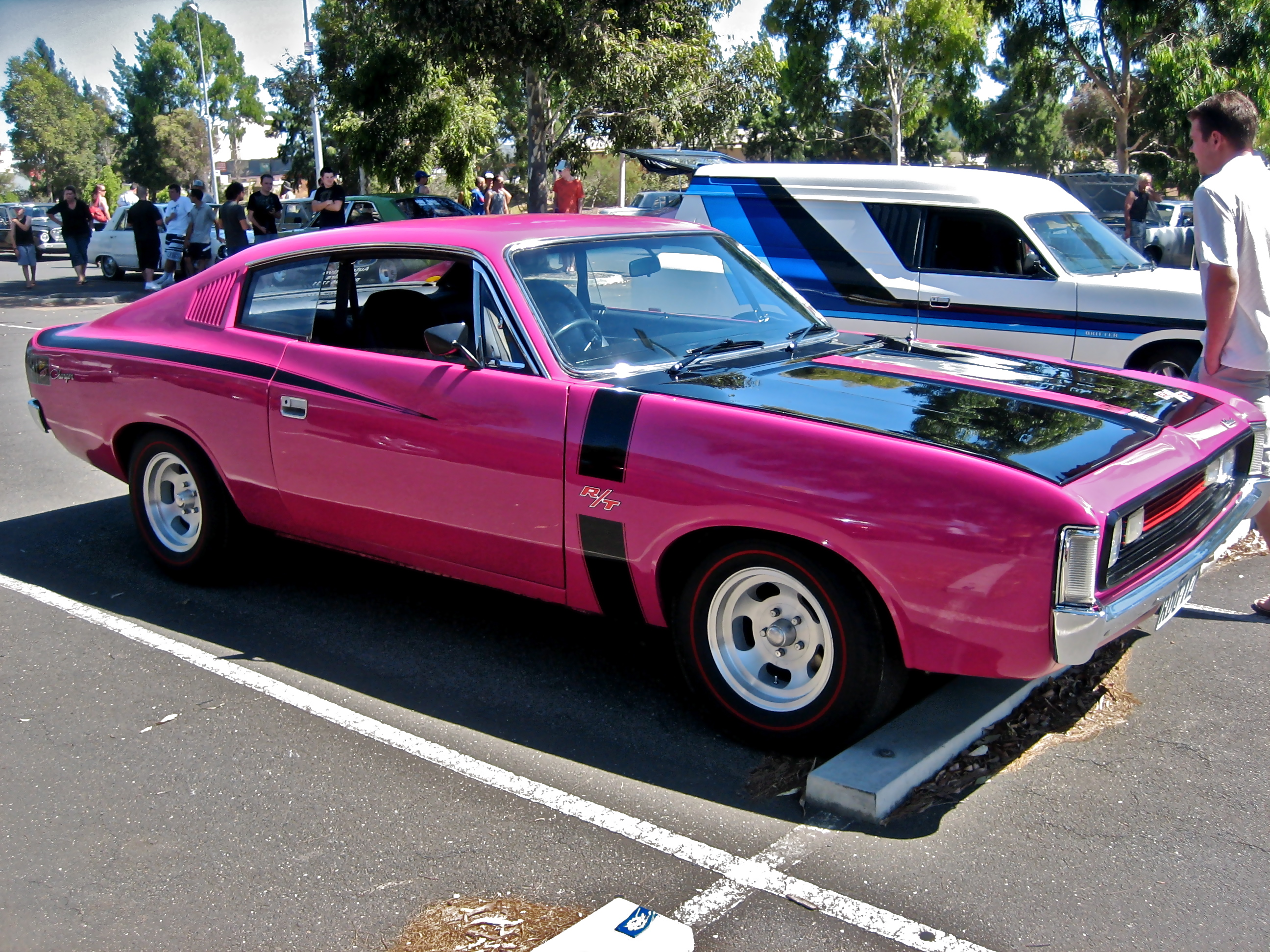 Chrysler Valiant VH Charger in pink.